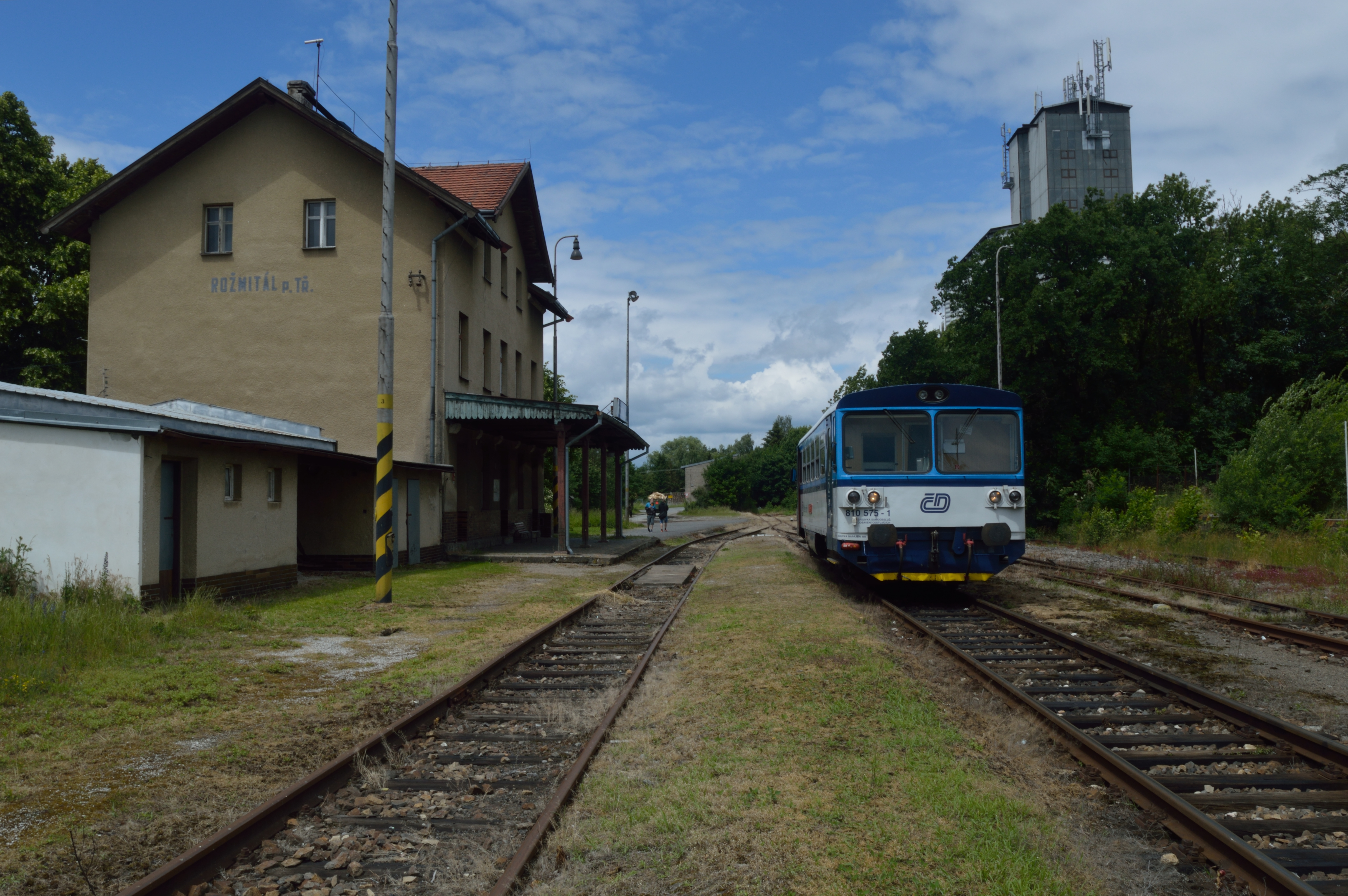 Taken at the end of the short dead end branch from Brežnice to Rožmitál pod Třemšínem on 23 June 2015. Seen before departure is 810.575 on train Os7890, 12:49 Rožmitál pod Třemšínem to Příbram.